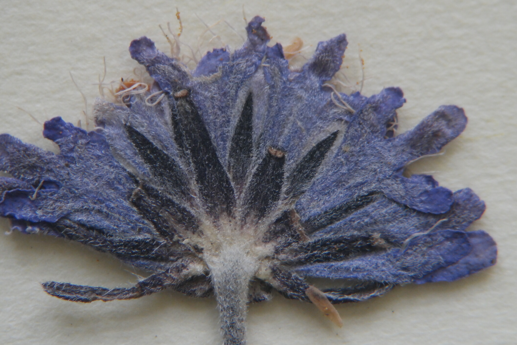 Scabiosa silenifolia leg Ernest Mayer, Mt. Velez August 30 1980 at approximatley 1600 m